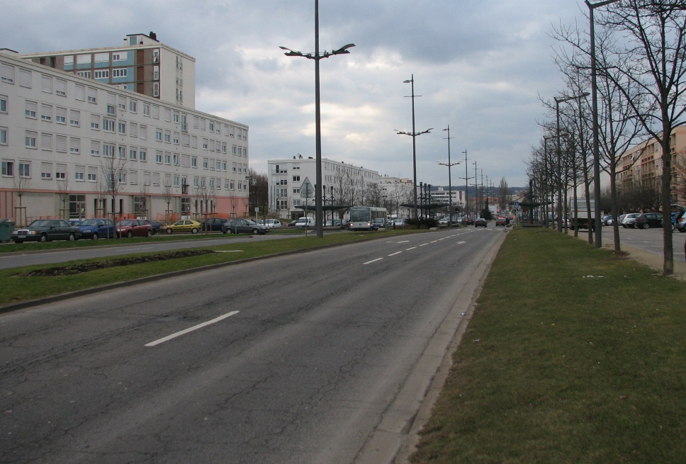 Vandœuvre-lès-Nancy.